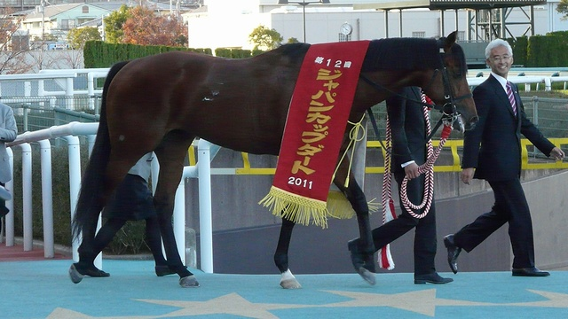 Transcend-horse20111204